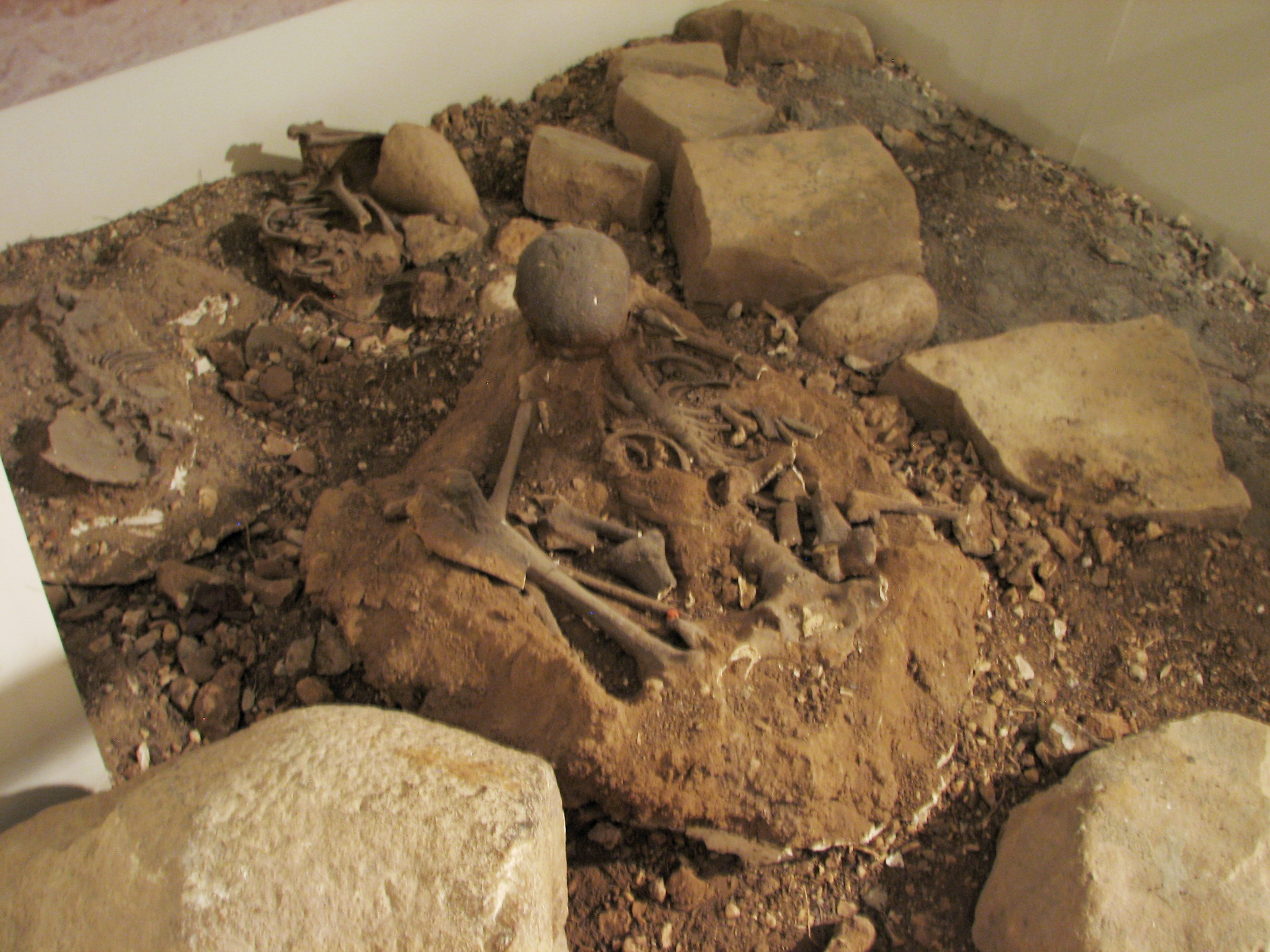 Moshe Stekelis Museum of Prehistory exhibition. Original Skeletons from Nahal Oren, Natufian Culture